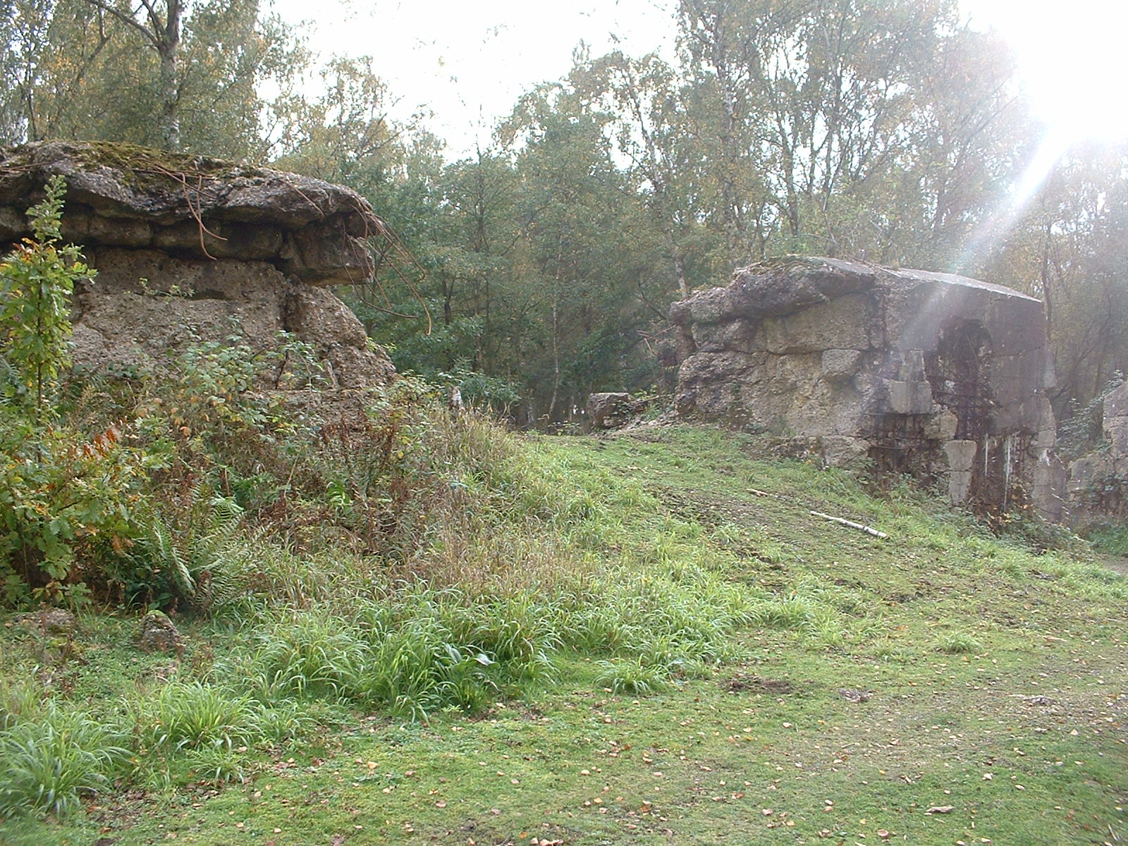 An image of a reconstruction of the Atlantic Wall constructed at Hankley Common in the UK in 1943 for the purpose of training prior to D-day. This image shows a large breech blown in the wall. OS reference SU884413